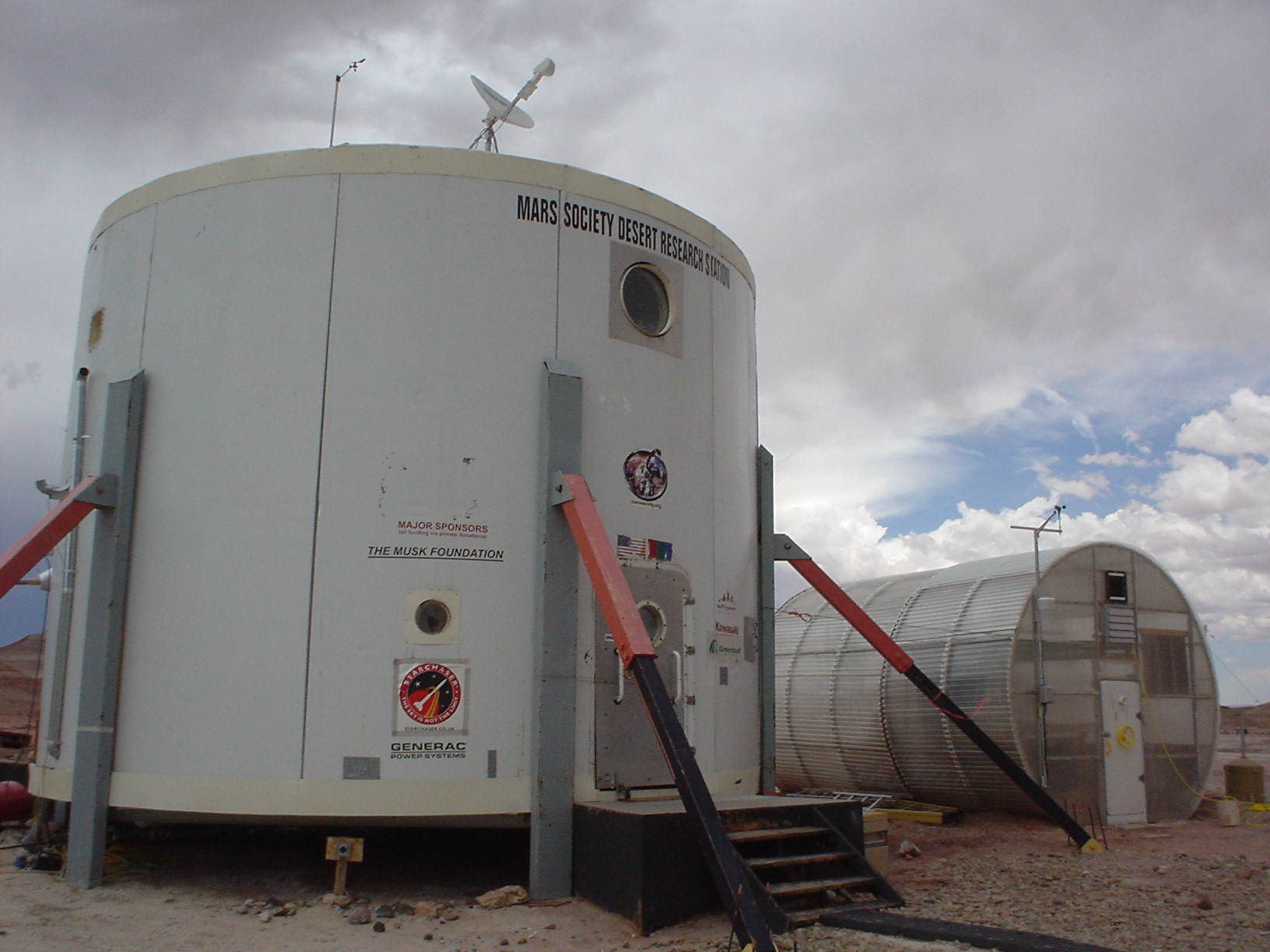 Mars Desert Research Station Hab front entry and the GreenHab.